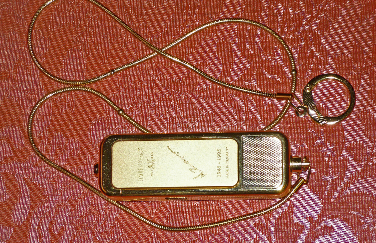 MINOX AX GOLD II WITH WALTER ZAPP SIGNATURE